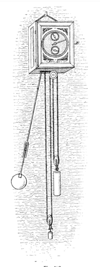 Drawing of the first pendulum clock, designed by Dutch scientist Christiaan Huygens in 1657. Huygens contracted his clock designs to clockmaker Salomon Coster of The Hague, who actually built the clock. The pendulum had a wider swing than modern clocks, perhaps 80°-100°, due to its verge escapement. The drive force for the clock was provided by the two weights at bottom in an ingenious "endless rope" mechanism.